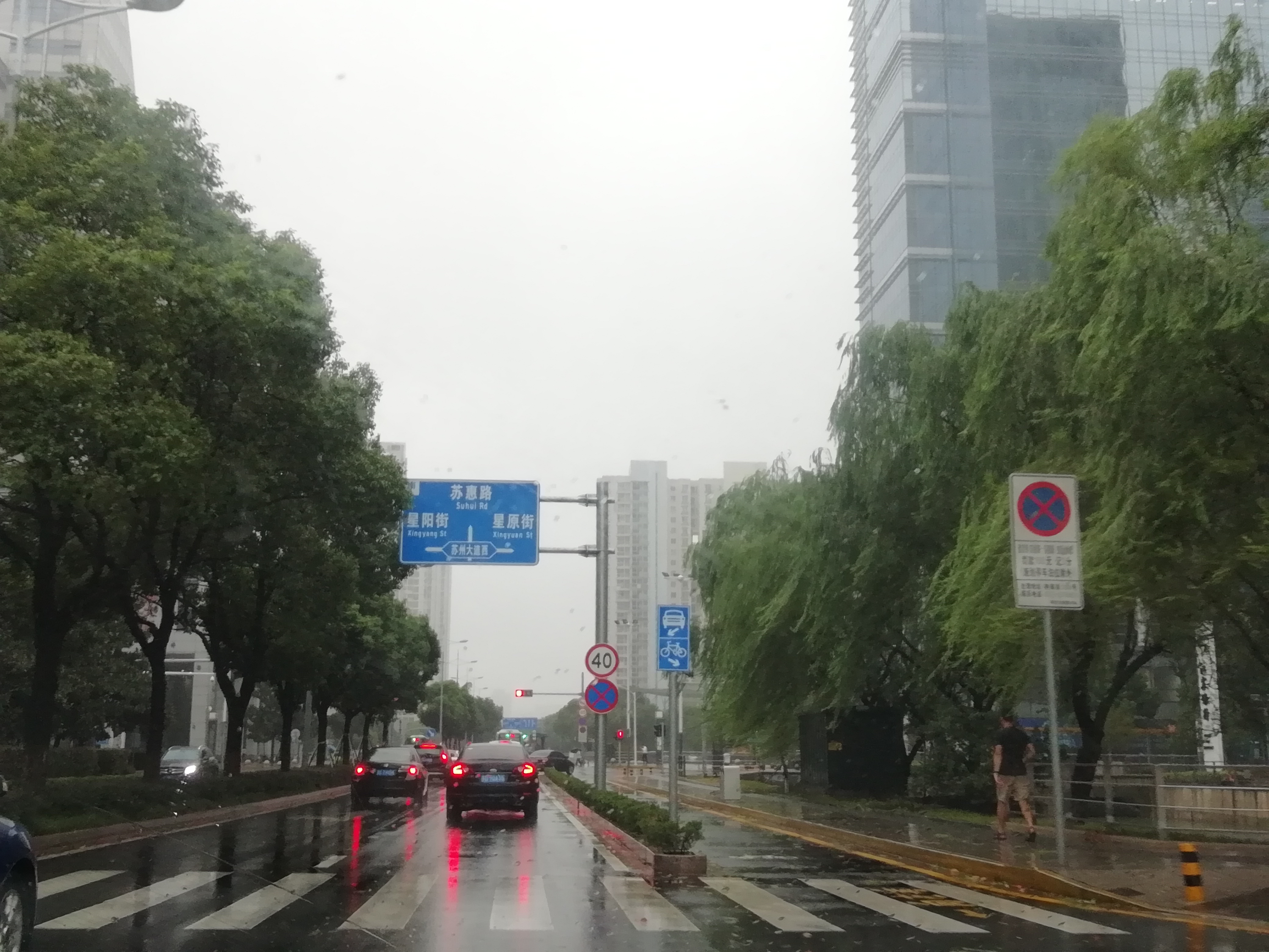 A view under the influence of Typhoon Rumbia in Suzhou, China on August 17, 2018. It's time to go to work, but I found Didi for long time... 中文（中国大陆）: 台风温比亚于2018年8月17日凌晨登陆上海后，苏州市出现风雨天气。